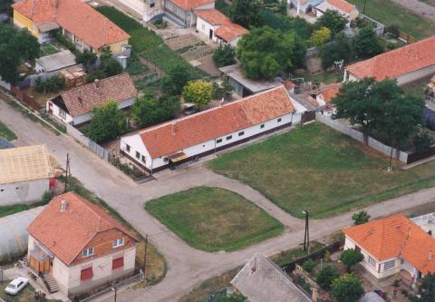 Boldog, Hungary, aerial photography